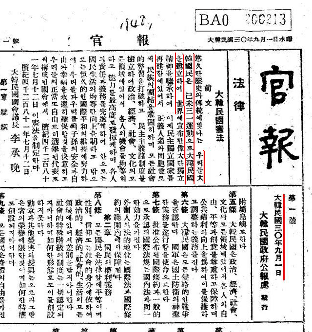 The official gazette No. 1 page 2 of Repubilc of Korea. It was published in September 1, 1948.